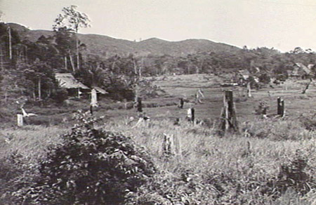 AWM Caption: JOHORE, MALAYA. 1945-10-02. THE "PIG FARM" AREA ON THE NITHSDALE ESTATE WHERE "D" COMPANY, 2/18TH INFANTRY BATTALION MADE CONTACT WITH THE ADVANCING JAPANESE FORCES IN 1942.